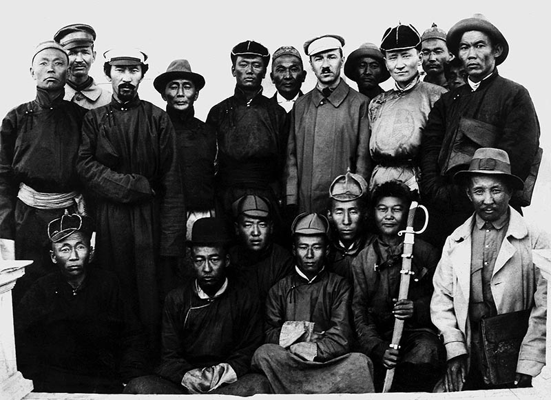 Back row from left: (looks like Dambyn Chagdarjav), (looks like Pyotr Shchetinkin), Ebegdorj Rinchino, Soliin Danzan, Damdin Sükhbaatar, "Japanese" Danzan, Shumyatskii, ?, Dogsomyn Bodoo, ?, ?, (looks like Damirangiin Nanzad)